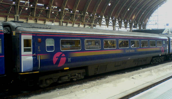 British Rail Mark 3 railway coach pictured at London Paddington station. Taken by Wikipedia member "RapidAssistant" on 18th June 2006.